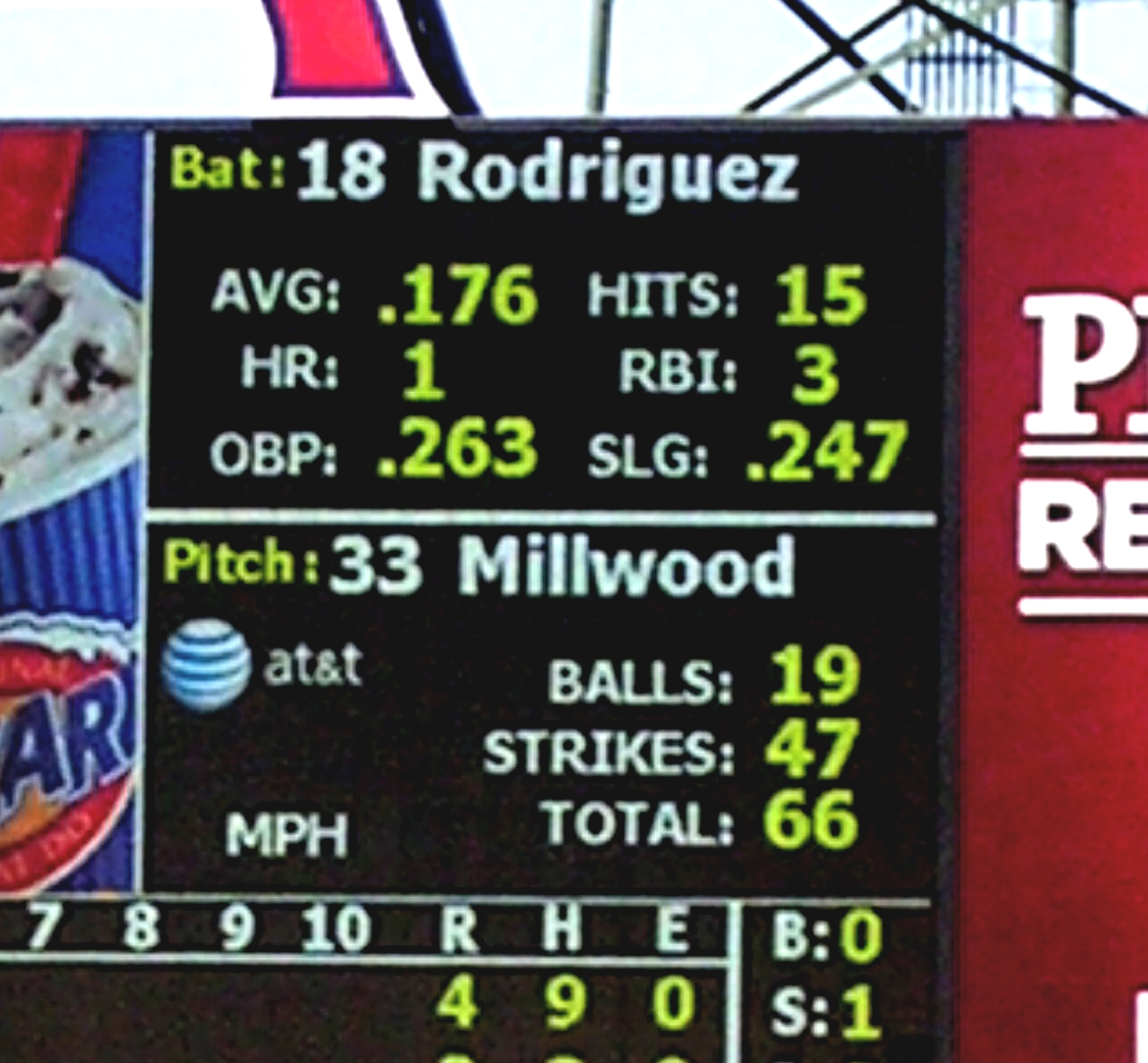 Hitting statistics for second baseman Sean Rodriguez of the Los Angeles of Anaheim appearing on the display screen at Angel Stadium of Anaheim on August 31, 2008 at a day game against the Texas Rangers. The photograph was taken with a Nikon Coolpix e3200 digital camera and edited using ArcSoft PhotoStudio 5.5